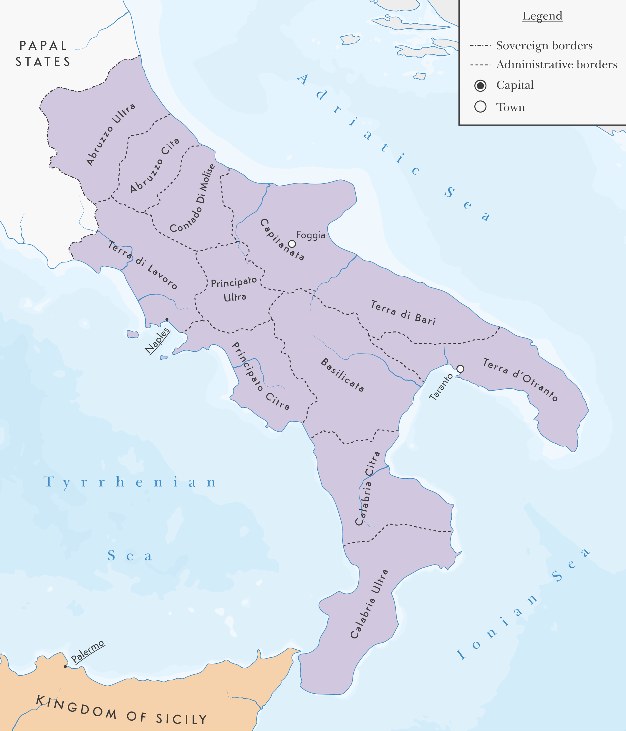 Centred on 40°30"N 15°45"E, with the Albers Equal Area Conic projection with a central meridian at 15°45"E. The scale is 1 to 3 000 000. The location of all cities was sourced from the 1968 English translation of the Atlas Świata by the Polish Army Topographical Service, originally published in 1962. The fact that they existed in and around the 13th century was sourced from their individual Encyclopædia Britannica online pages. The administrative boundaries of the Kingdom of Naples were sourced from this map